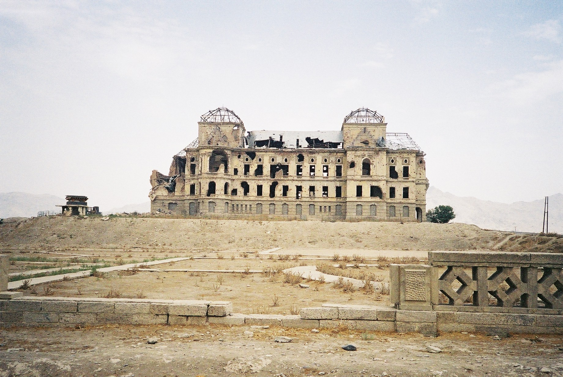 Darul Aman Palace, Kabul, Afghanistan, in 2006